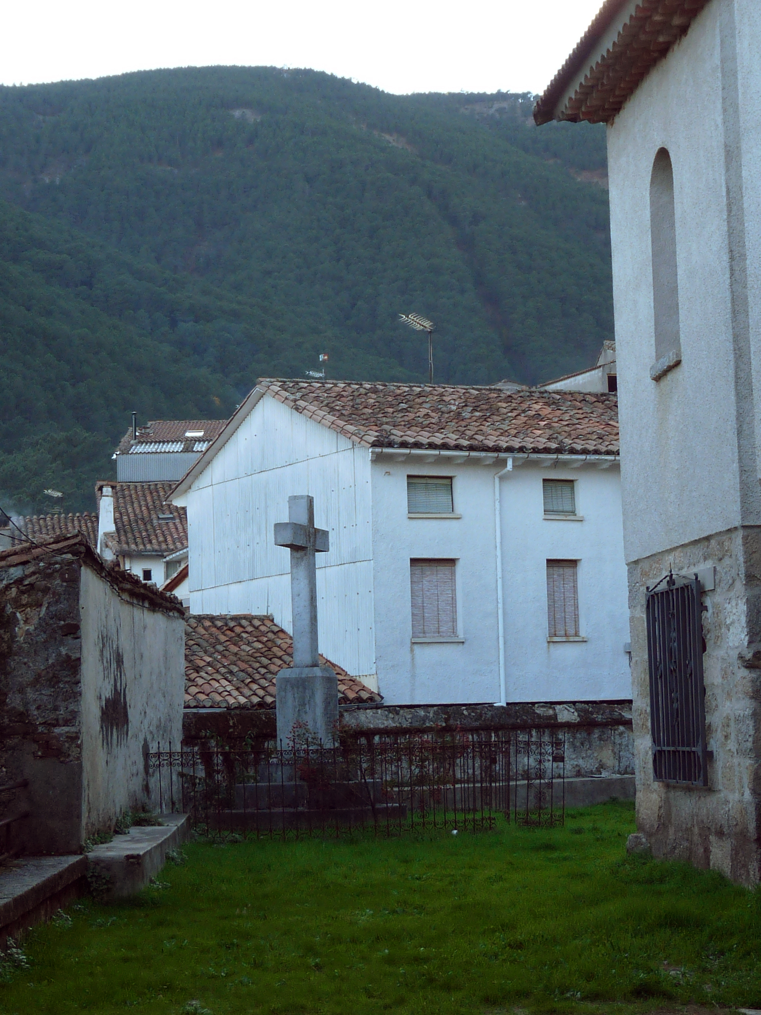 Cross, Guisando, province of Ávila, Castile and León, Spain.